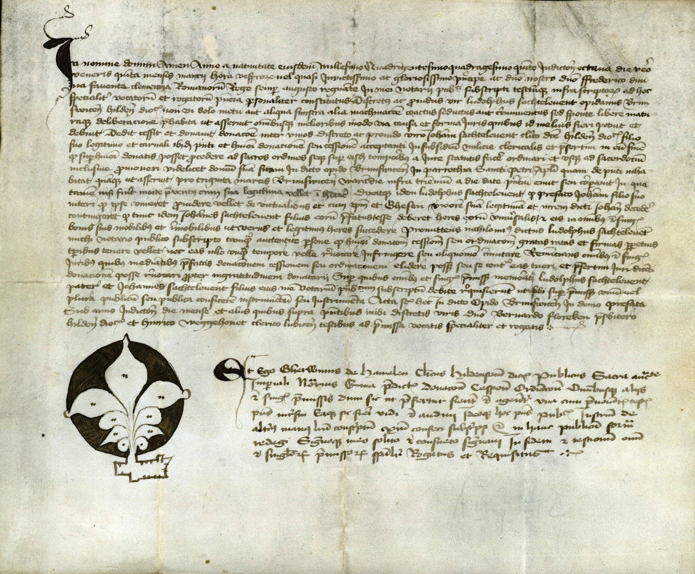 Instrument of civil law notary Gherwinus de Hameln from Braunschweig, Germany. Dating 5 March 1445.